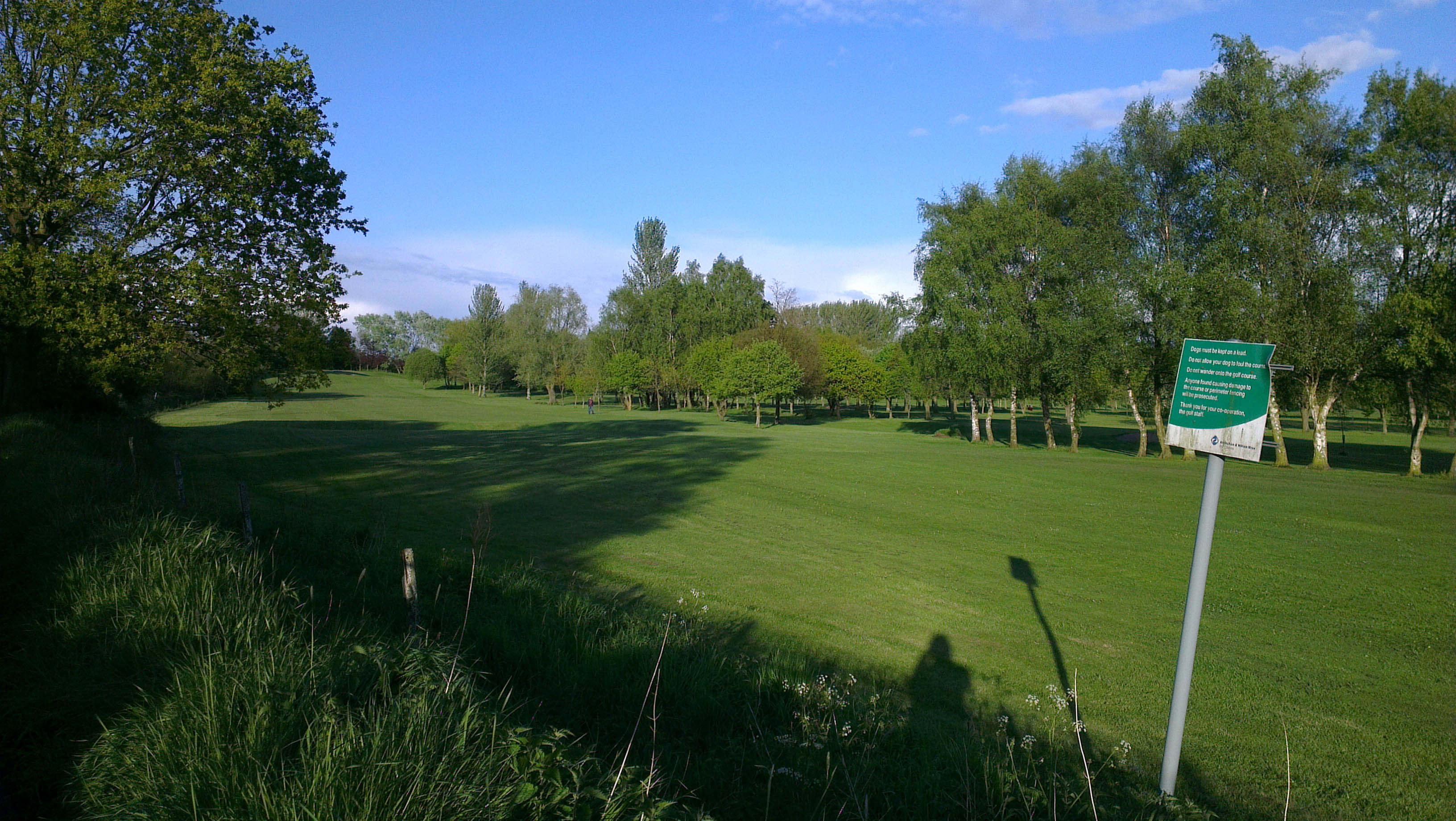 William Wroe Golf Course, viewed from the railway.